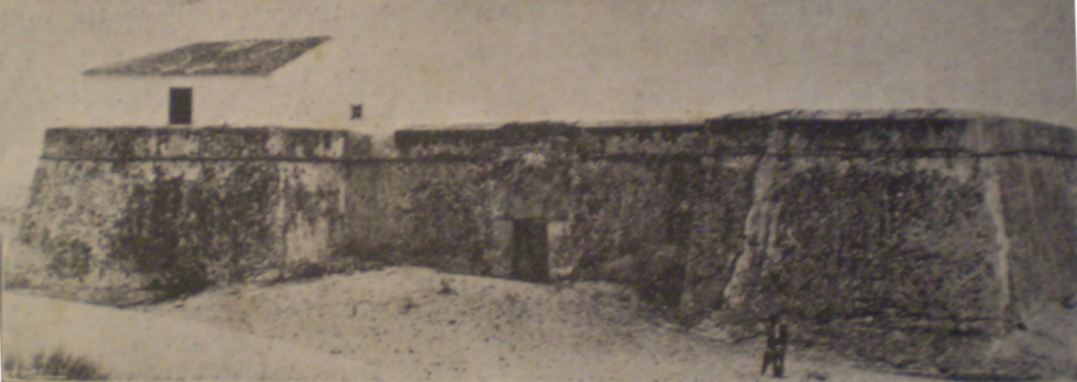 Meia Praia Bastion, near Lagos, Portugal. Original photograph taken around 1910.